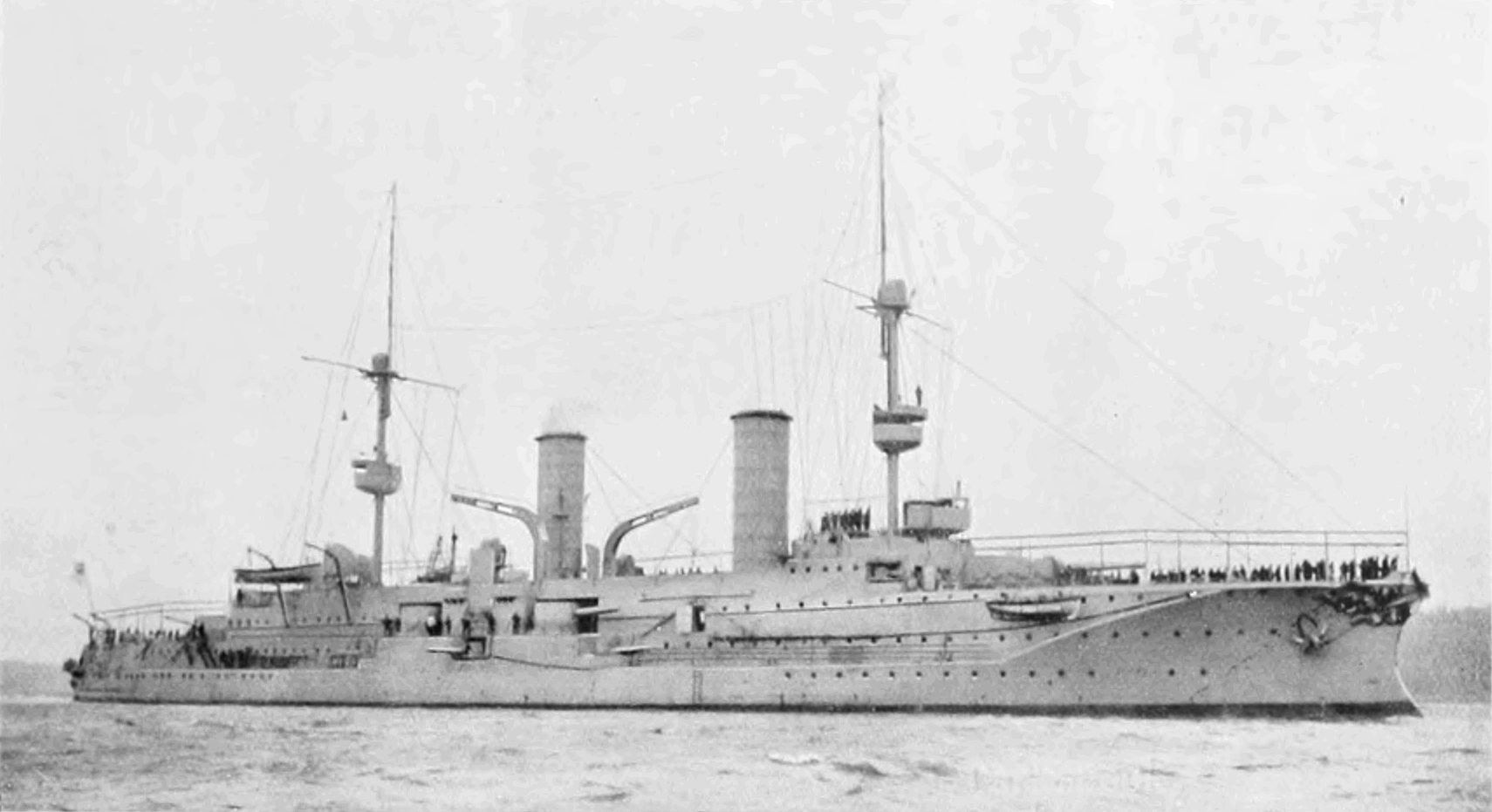 Photo of the German cruiser Prinz Heinrich. From Page's Magazine No. 3, September 1902, page 259, stored at .